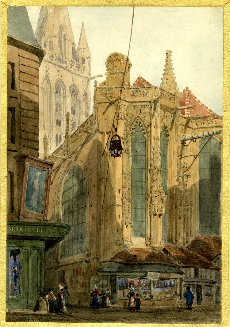 "Church of Saint-Sauvieur in Caen," watercolour with pen and brown ink and brown wash, by the British painter and architect Ambrose Poynter. 263 mm x 183 mm. Courtesy of the British Museum, London.